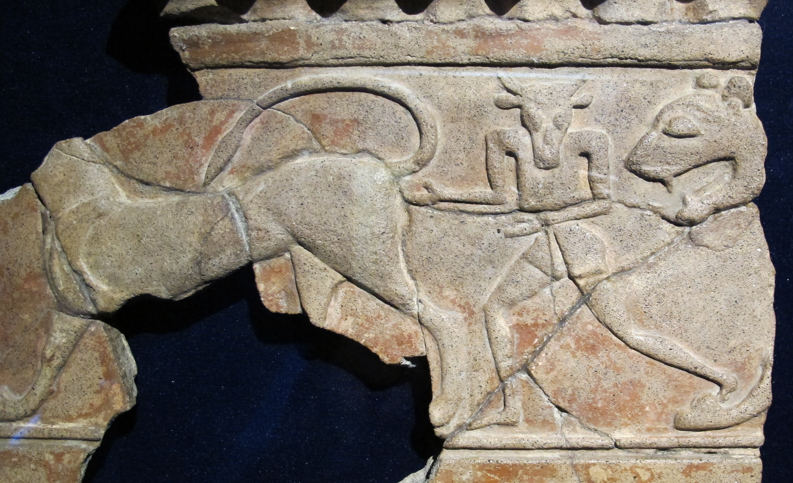 Monsters Exhibition (Palazzo Massimo, Rome, 2014)